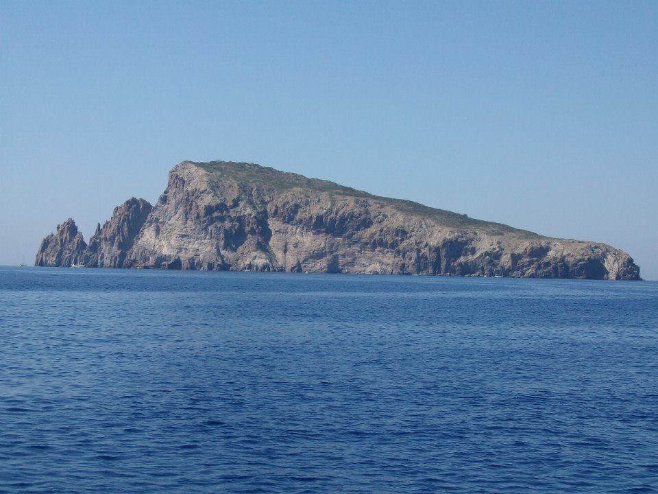 The little island of Basiluzzo, Aeolian Islands, Italy.